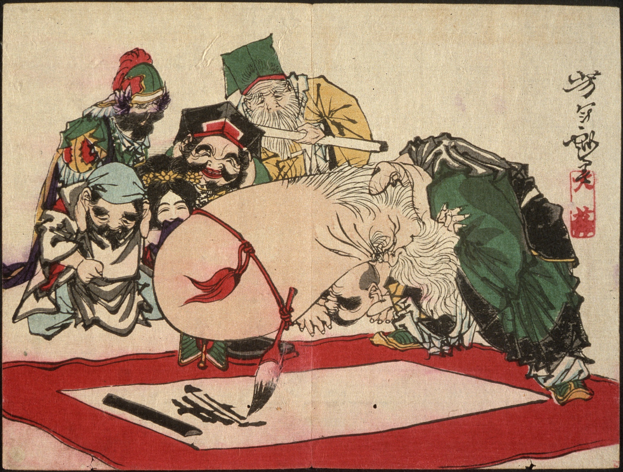 Japan, 5/1882 Series: Sketches by Yoshitoshi Prints; woodcuts Color woodblock print Herbert R. Cole Collection (M.84.31.352) Japanese Art